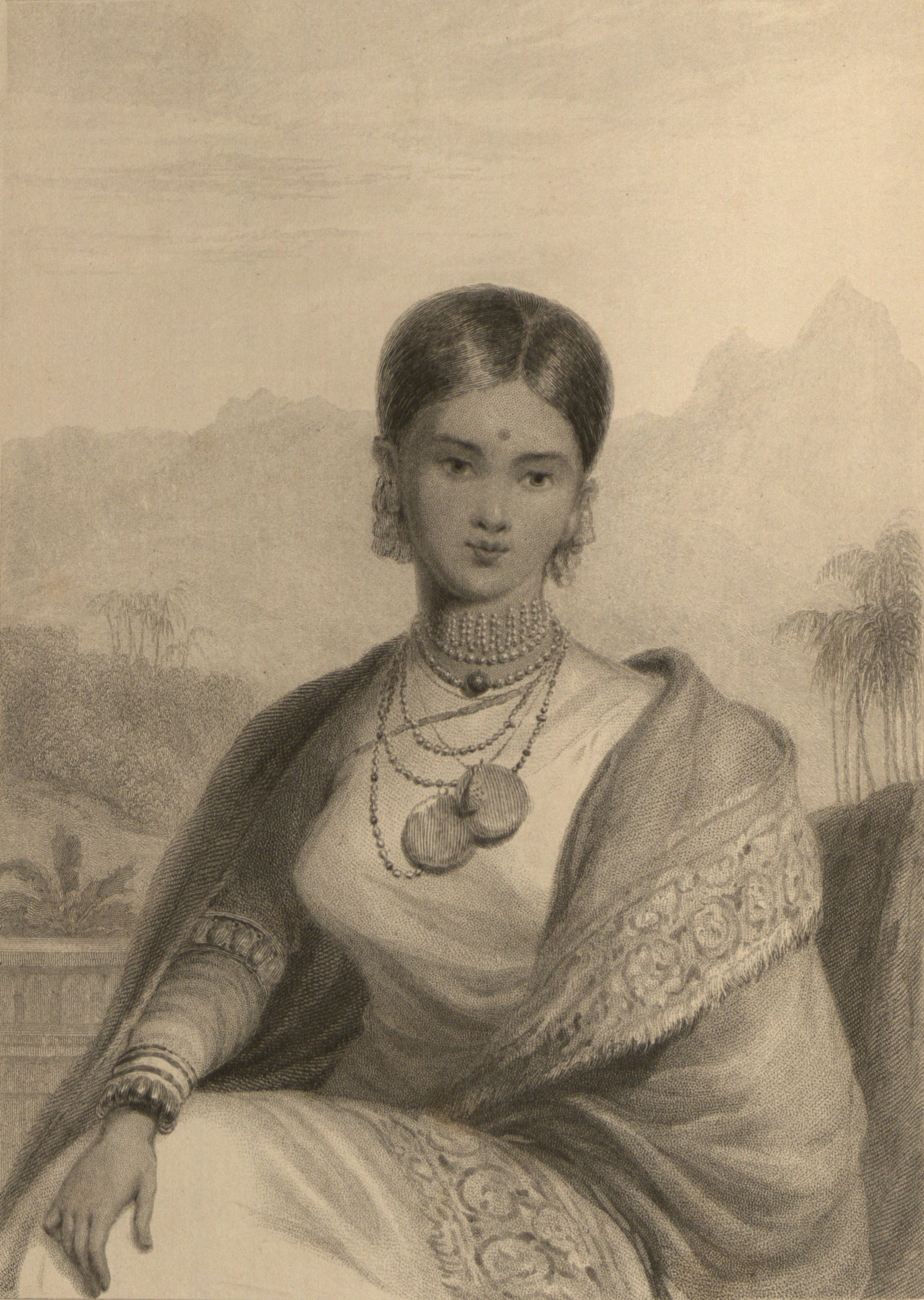 Original Portrait of Queen Consort Venkata Rangammal Devi of Kandy. Description The Queen of Kandy, the Kandyan king’s consort, poses in a chair, legs crossed, against a mountainous landscape. Her elongated neck is covered with exotic, shell-like jewelry. Her hair is bound tightly back and garnished with a loop of flowers. She averts her gaze from the viewer and modestly covers her shoulders, exposing only one, small hand. Unlike most depictions of native Indian subjects, her demure features are set in a round, child-like face. Associated Texts Whilst we remained in the neighborhood of his Candian (Kandyan) majesty’s residence, Mr. William Daniell was permitted to make a portrait of the queen, from which the accompanying engraving is taken; it may be relied upon as a most admirable likeness. She was very young, extremely pretty, of engaging manners, familiar without being free, and appeared much delighted at seeing her features transferred to paper. Her dress was becoming, her figure graceful and her gait elegant. (Daniell 85)